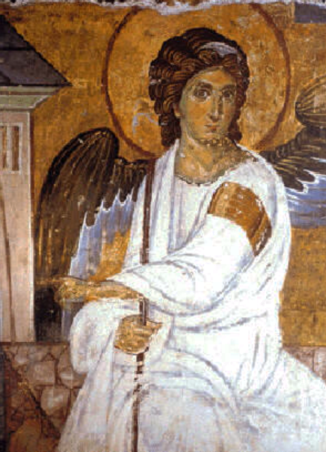 Fresco in the monastery church of Mileseva, Scene: Resurrection of Christ